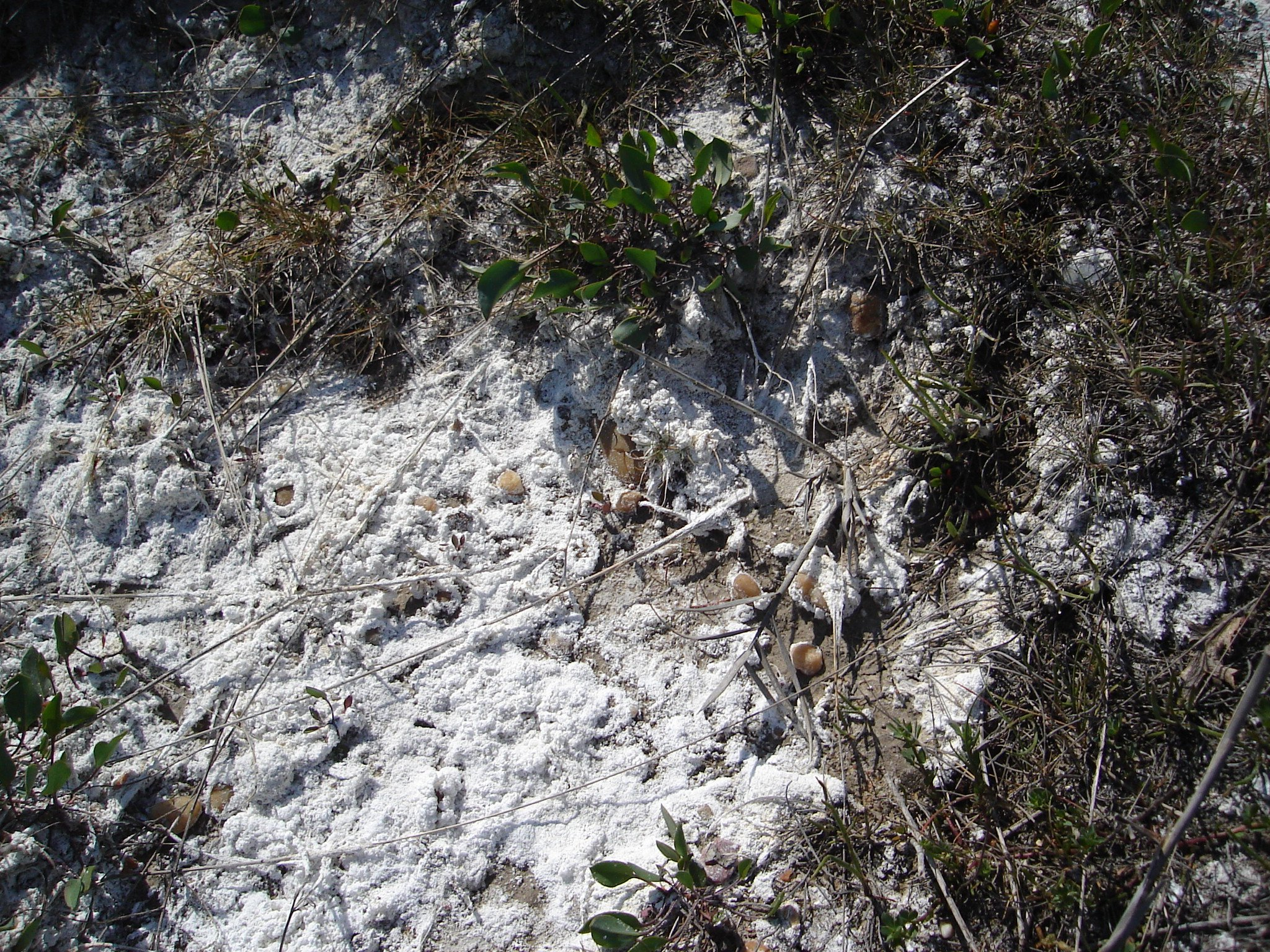 Solontchak Soil in Austria